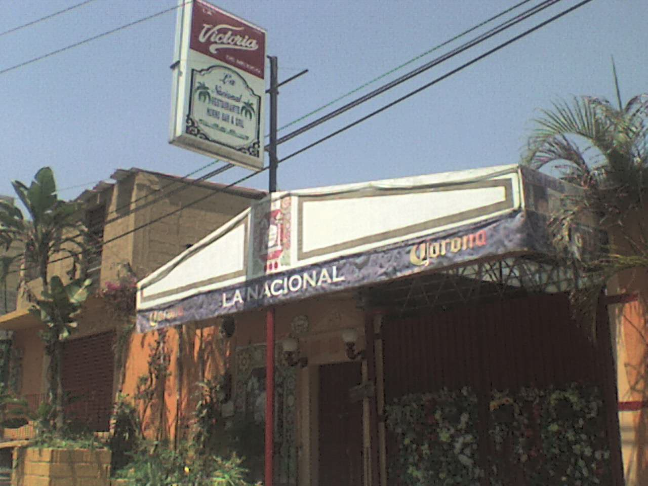 Fachada del Restaurante La Nacional